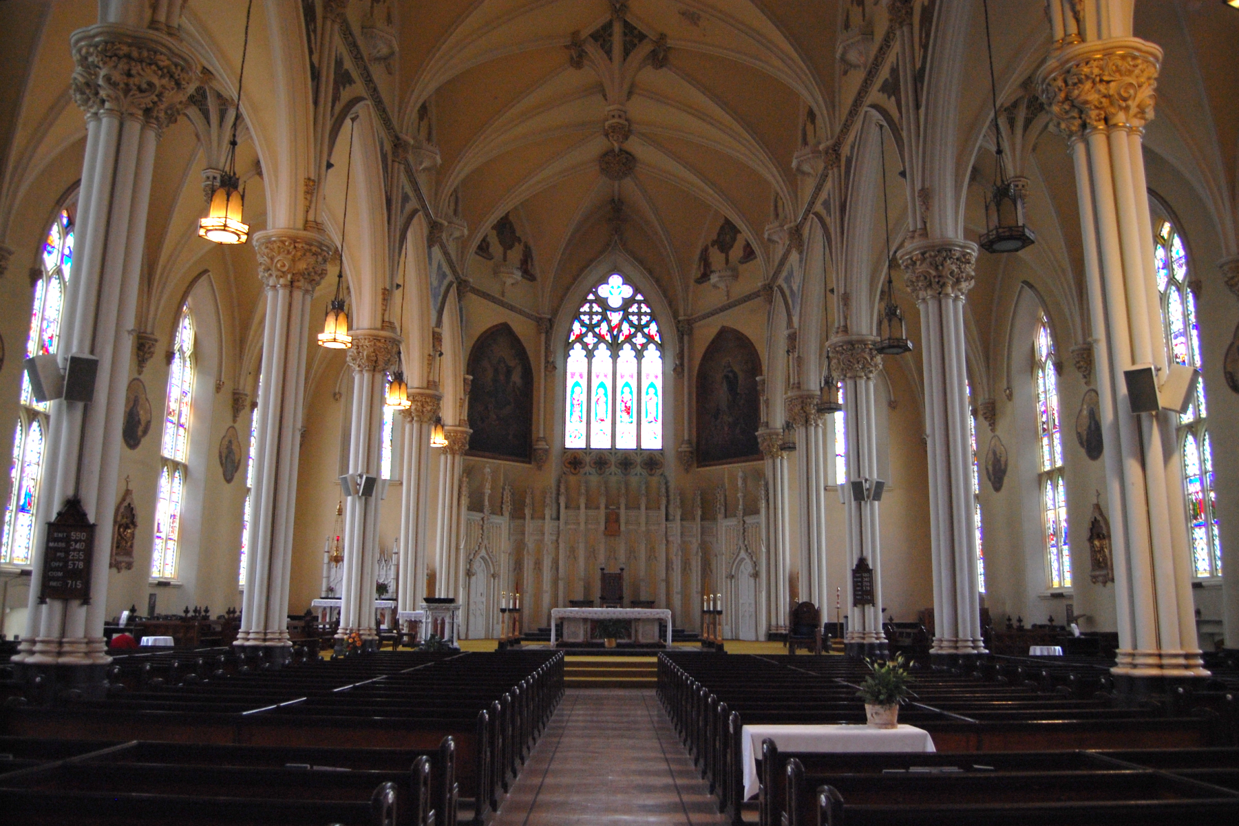 The interior of St. Mary's Cathedral in Kingston, Ontario, Canada.